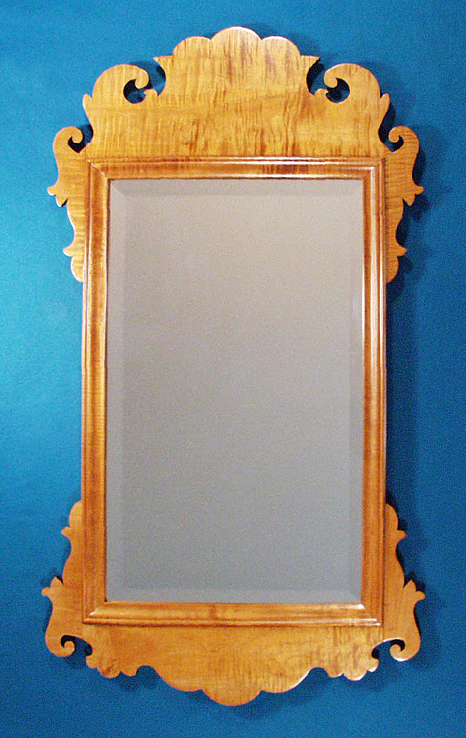 Mirror frame fretwork - English looking-glass.